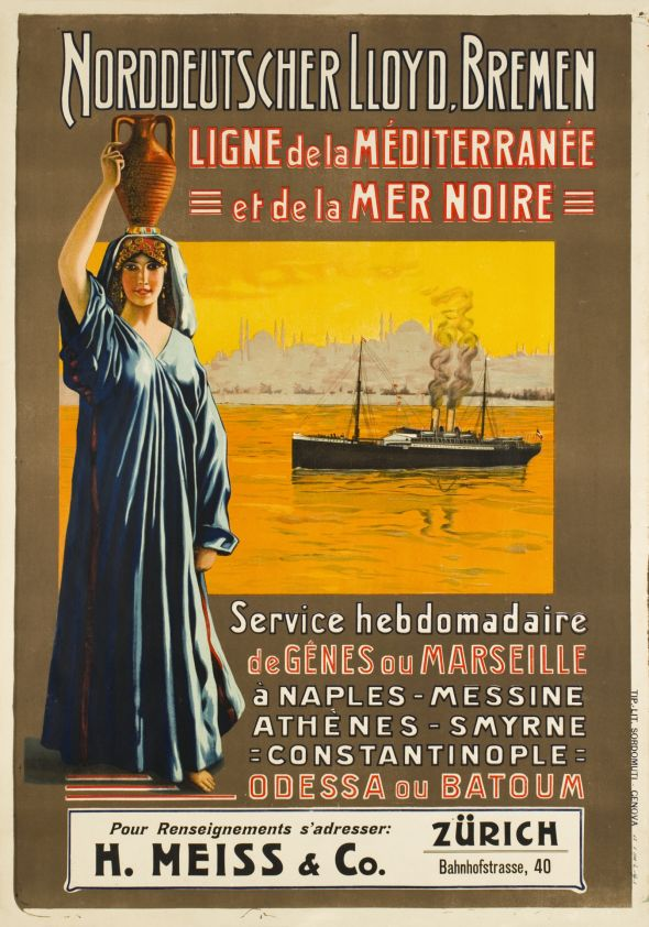 Poster Norddeutscher Lloyd, Bremen: Ligne de la Méditerranée et de la Mer Noire.